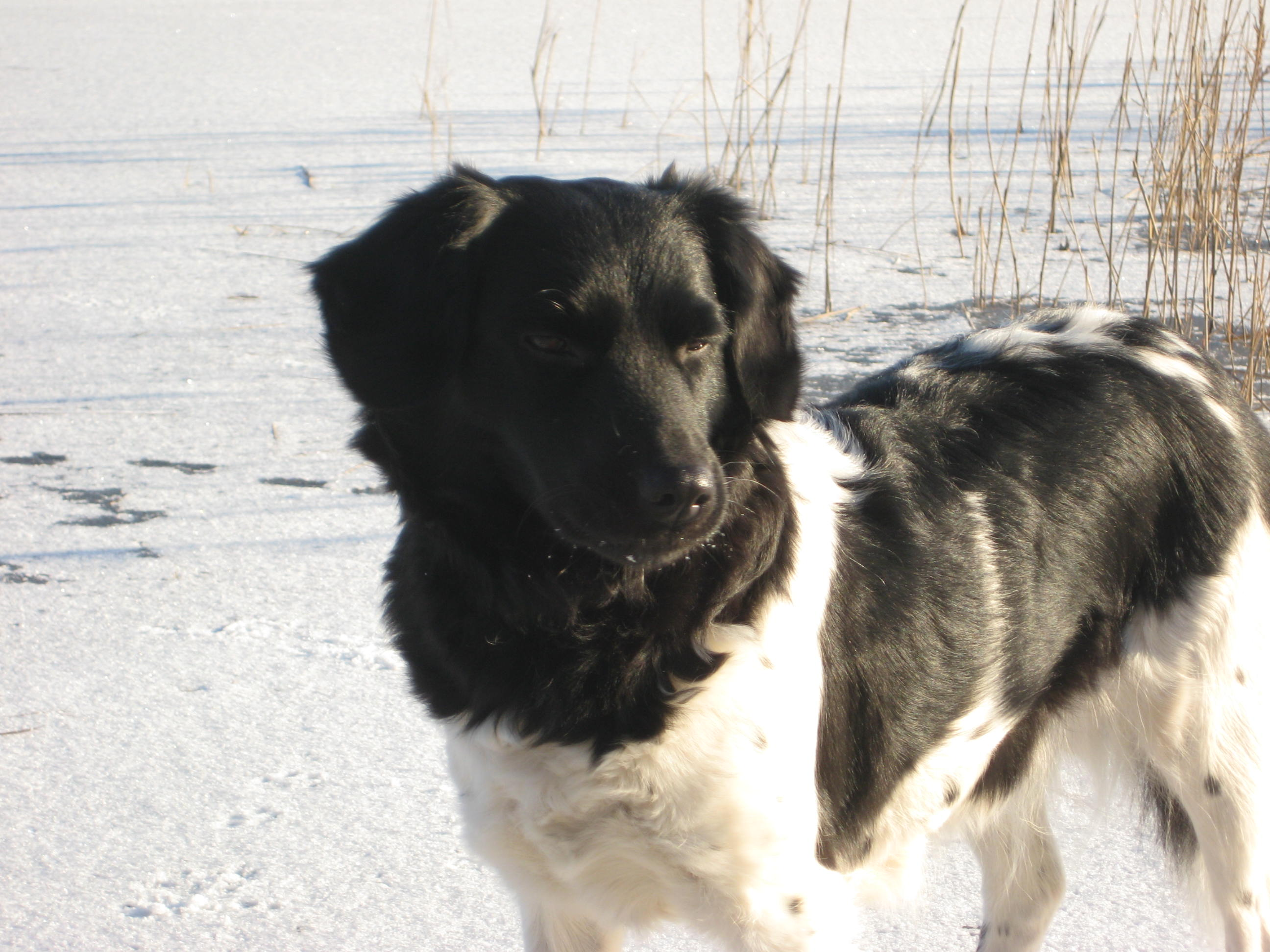 Friese Stabij, Stabijhoun